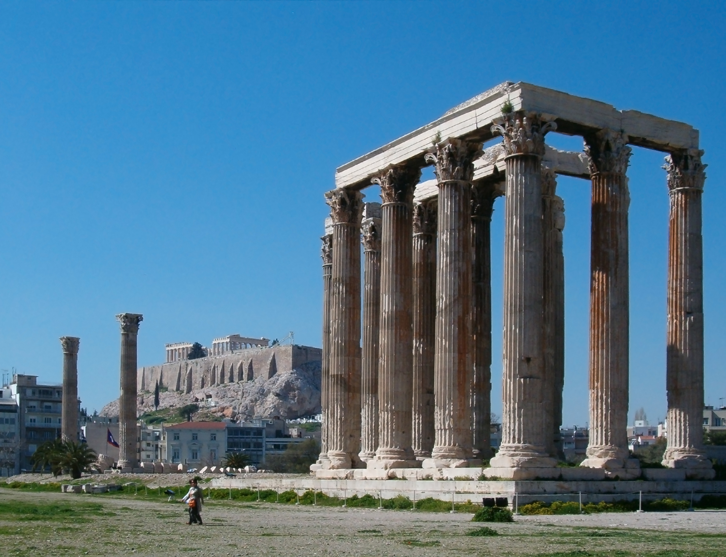 Temple of Olympian Zeus in Athens. The Acropolis in backgound.